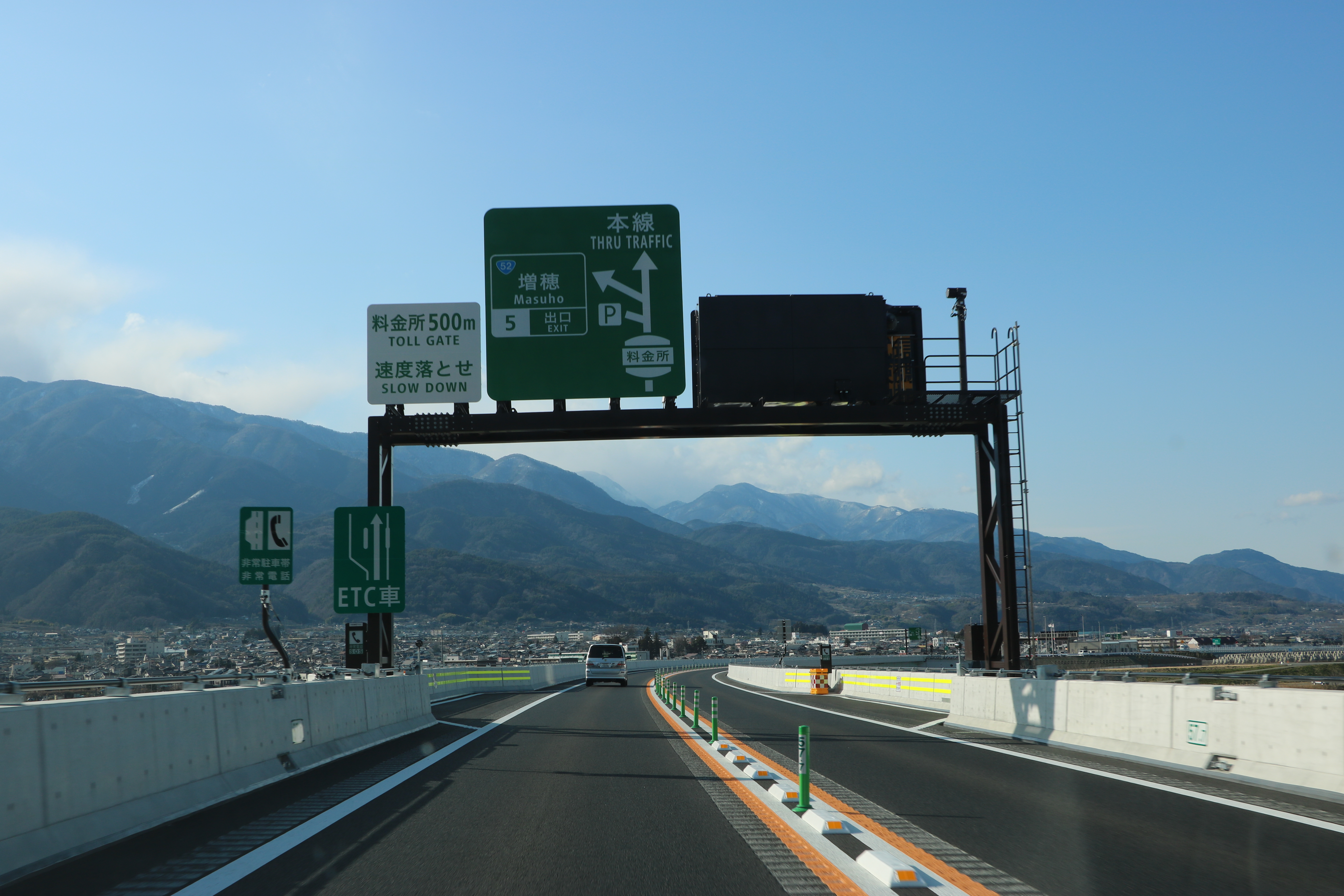 On the street of Chubu Odan Expressway Fujikawa No. 2 Bridge.